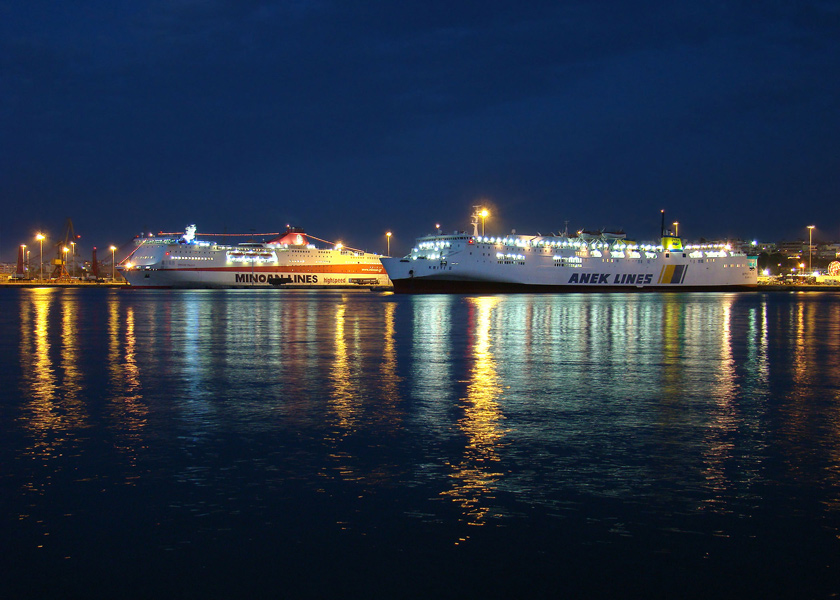 The New Harbour, Heraklion, Crete, Greece.